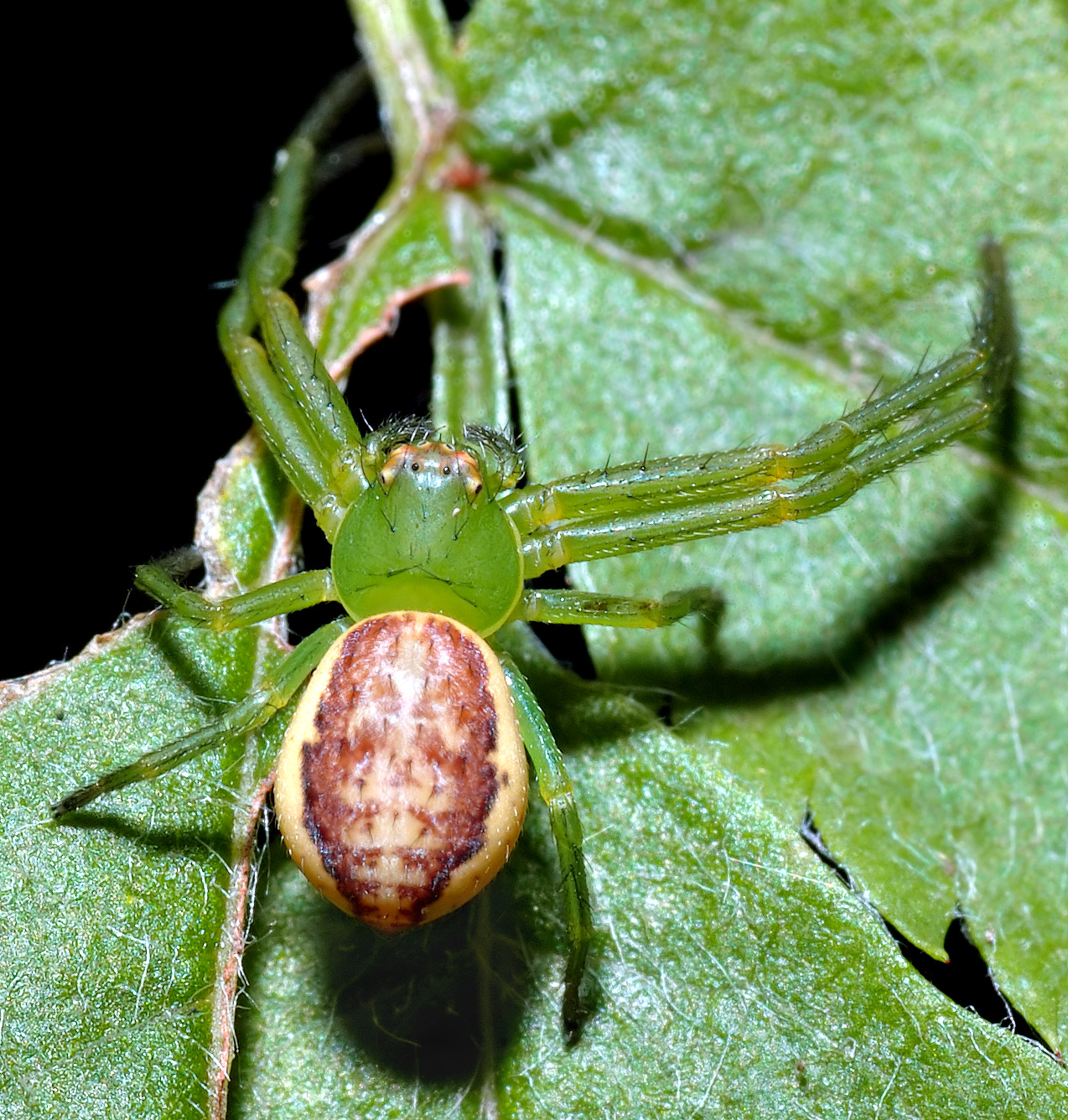 This image shows a 0.18 inch (4.5 mm) long Diaea dorsata spider.